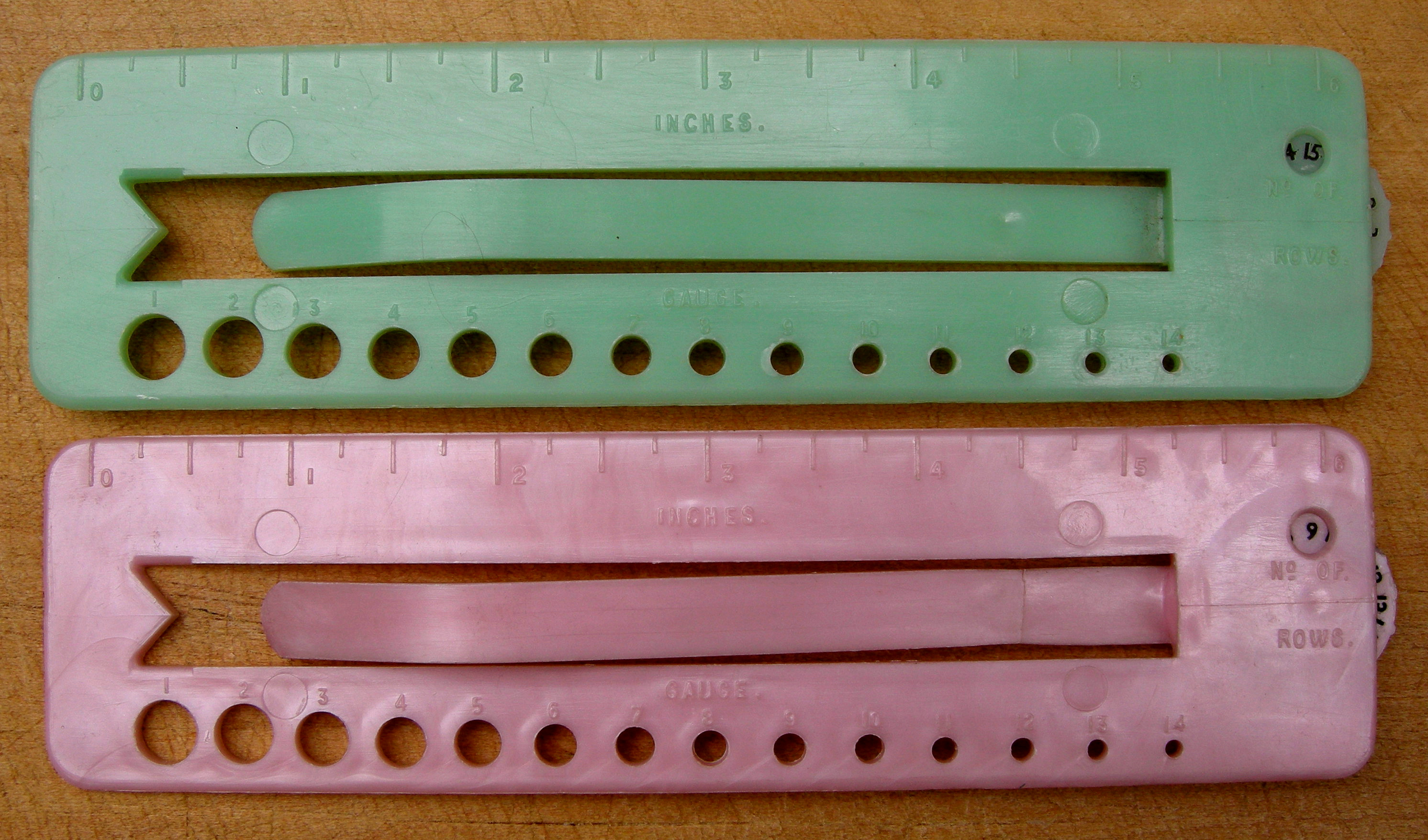 Green and pink bakelite knitting row counters of the 1930s. The counter registers 1-16 rows. The gadget also incorporates a pattern bookmark, a needle gauge for UK sizes 1-14 and a 6-inch rule. The front (as pictured) is labelled "inches", "gauge" and "no. of rows". The back says "Regd. design - pat applied for - made in England." As of 2010, the book mark spring on the green example was still springy and fully functional. The counter disc had lost friction, and could not be relied upon to maintain the number count if moved or stored. The book mark spring on the pink example was broken, but the row counter was still fully functional, with sufficient friction to maintain the count.